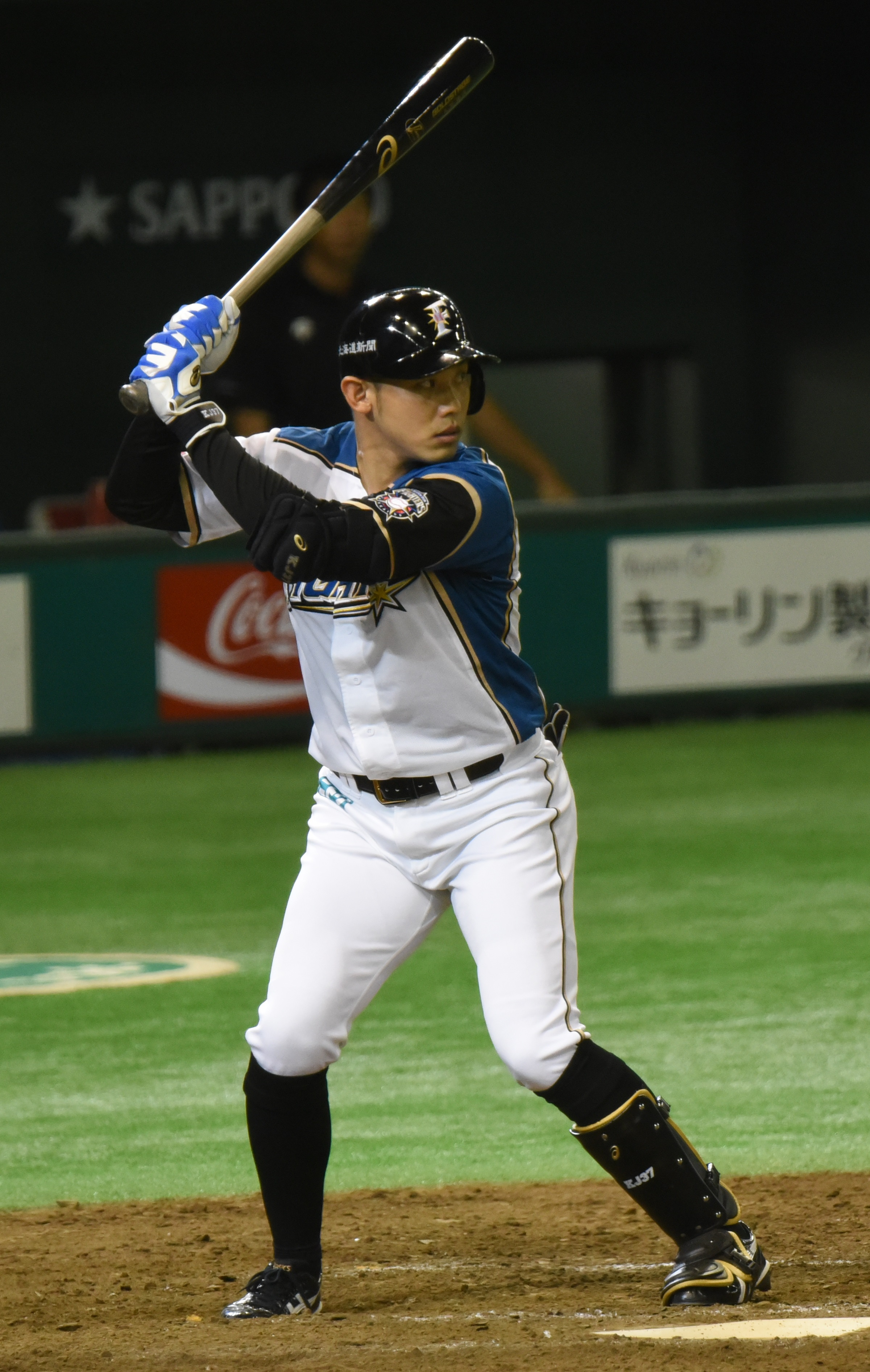 Kenji Yano, outfielder of the Hokkaido Nippon-Ham Fighters, at Tokyo Dome